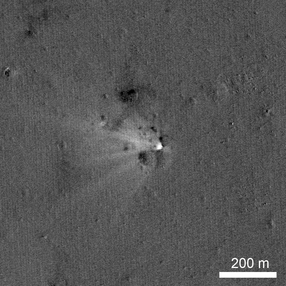 NASA’s LRO Spacecraft Captures Images of LADEE’s Impact Crater October 28, 2014 LRO has imaged the LADEE impact site on the eastern rim of Sundman V crater. The image was created by ratioing two images, one taken before the impact and another afterwards. The bright area highlights what has changed between the time of the two images, specifically the impact point and the ejecta.